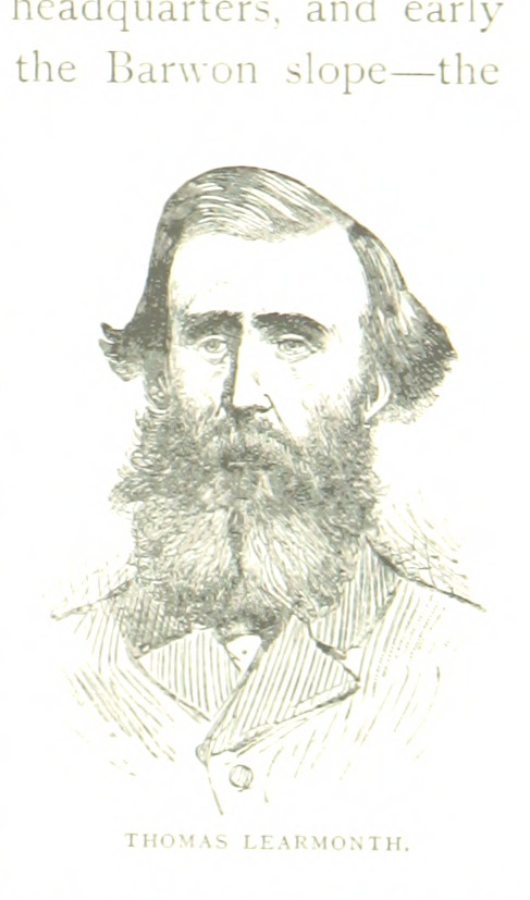 Victorian settler Thomas Livingstone Learmonth